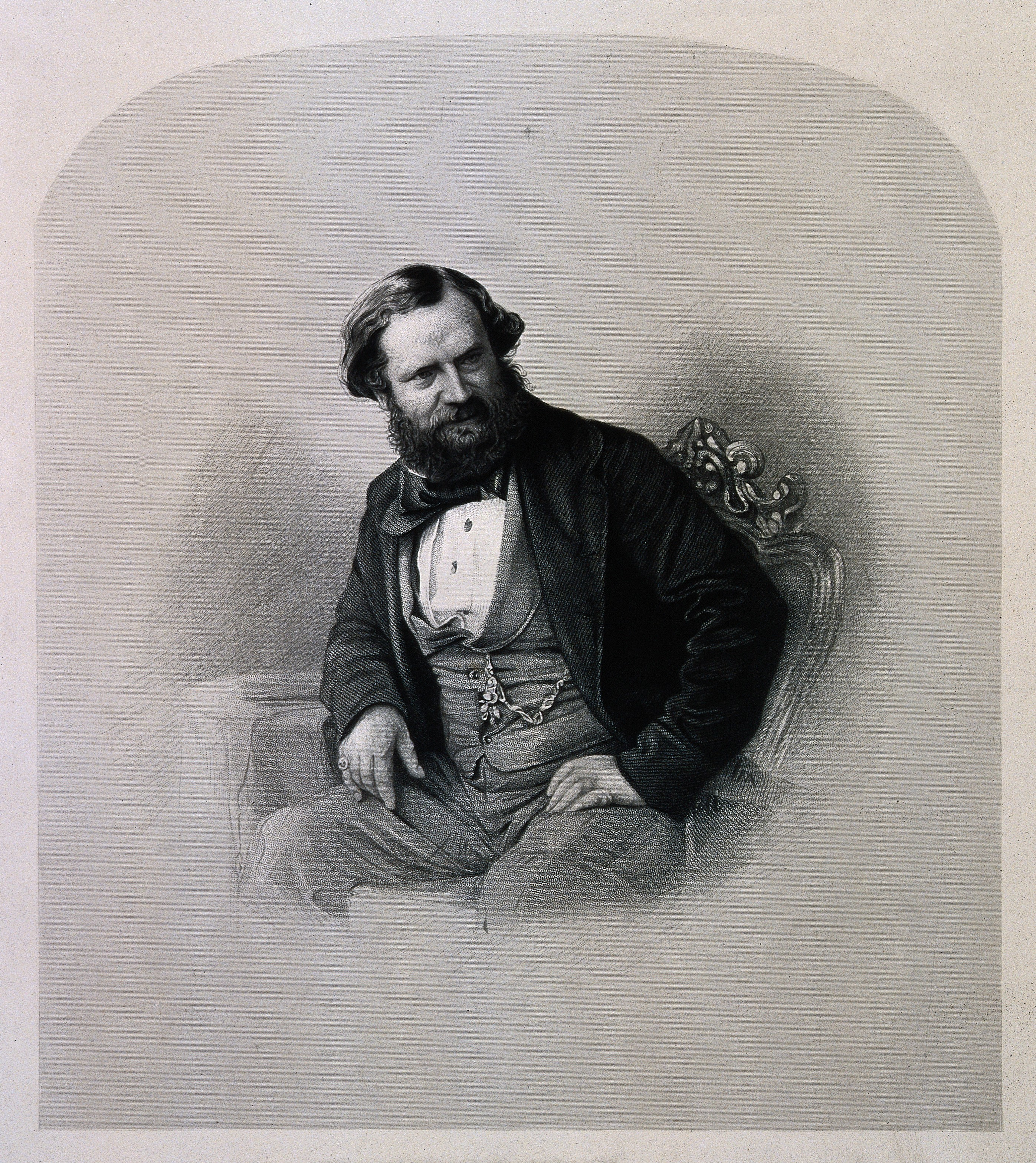 Albert Richard Smith. Stipple engraving. Iconographic Collections Keywords: portrait prints; Albert Richard Smith; stipple prints